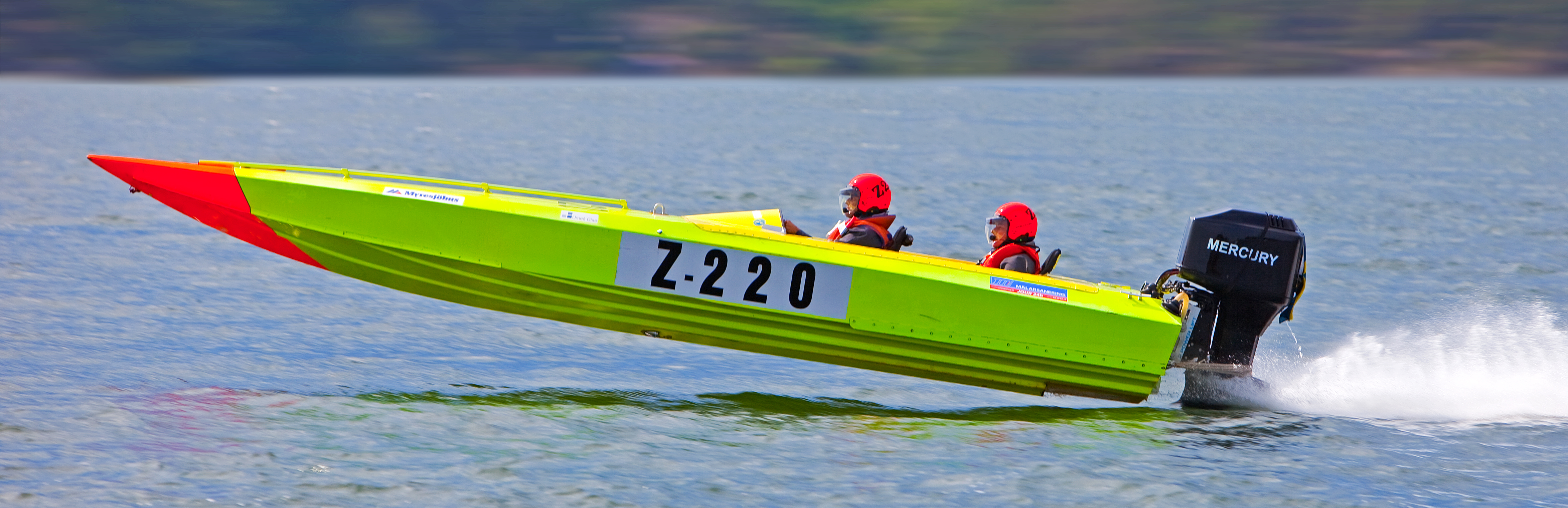 Roslagsloppet 2010. Life on the edge